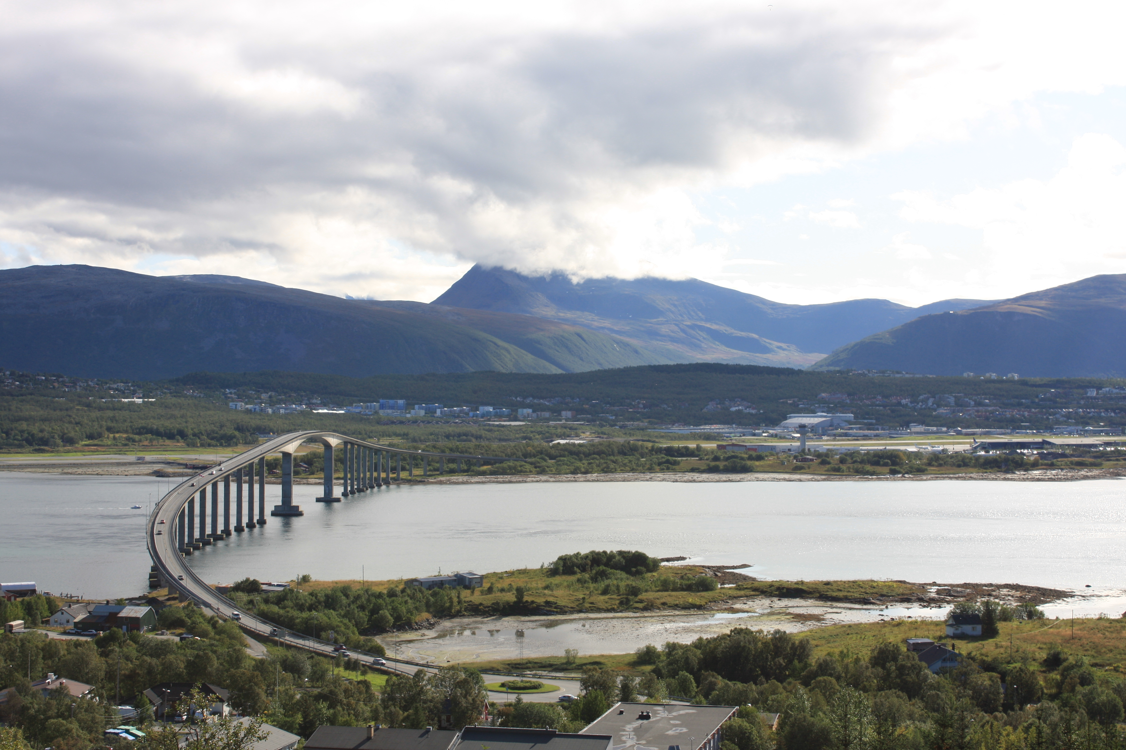 Sandnessund Bridge in Tromsø, Norway